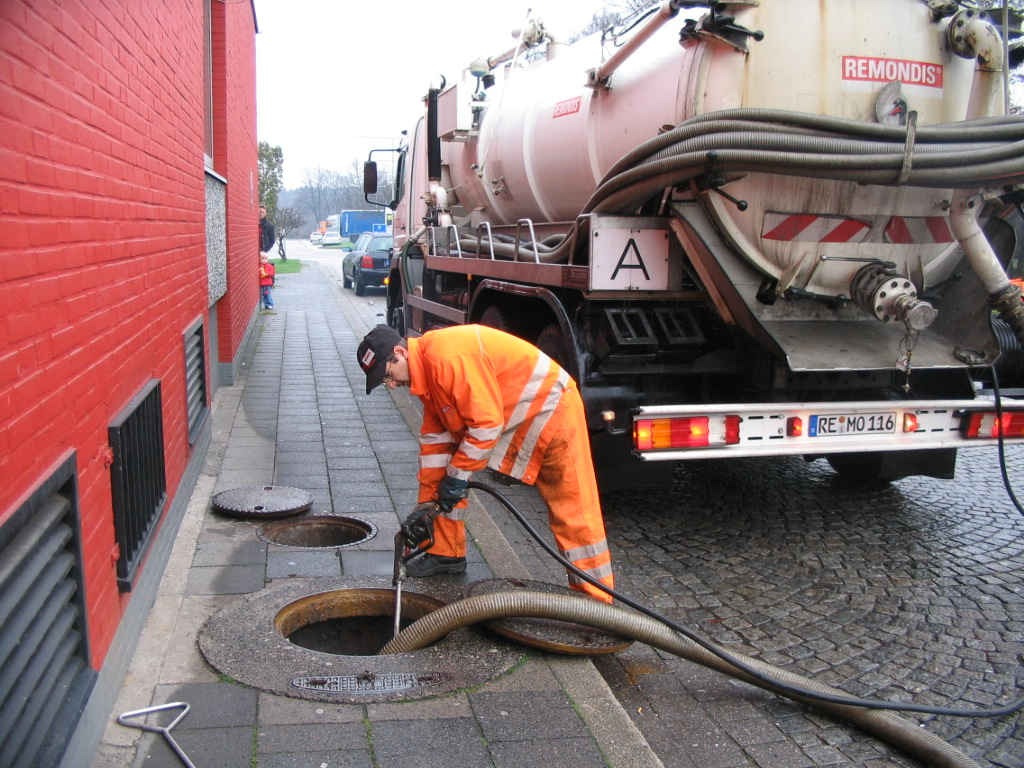 Vacuum truck in Germany. Photo taken: Jan 2007